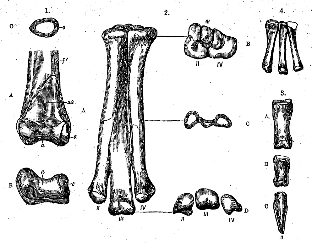 Syntype material (leg and arm bones) of Ornithomimus velox.